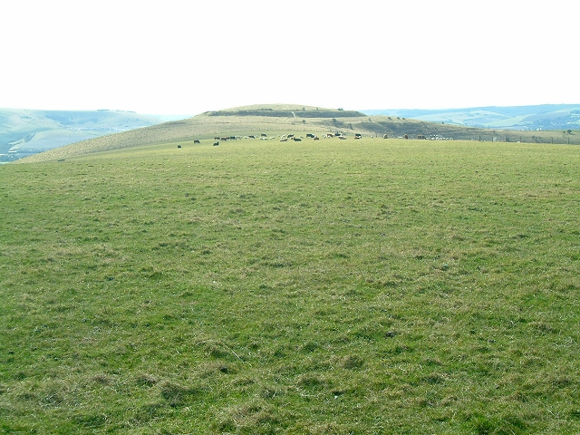 Caburn Fort. Downland ridge looking towards the Caburn fort (earthworks just in next square south). Cattle lying down just before it started to snow!